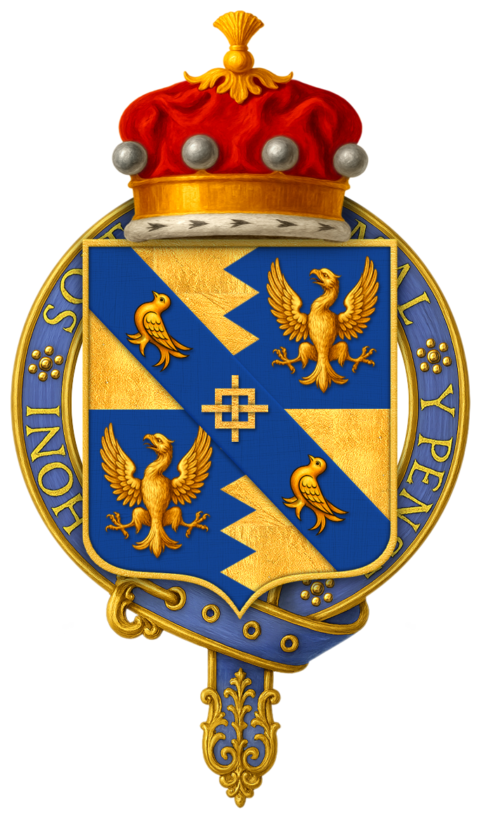 Coat of arms of Sir Thomas Audley, 1st Baron Audley of Walden, KG. Arms of Audley: Quarterly per pale indented or and azure, in the 2nd and 3rd an eagle displayed of the 1st on a bend of the 2nd a fret between two martlets of the first (Ashmole, Elias, History of the Most Noble Order of the Garter, London, 1715, p.525, no.304)[1]) See Lord Audley's stall plate within St. George's Chapel. The plate is currently viewable online at the Royal Collection Trust website.